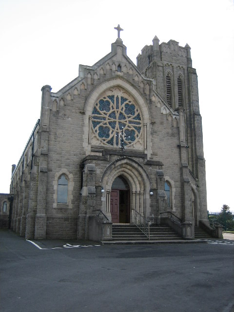 St Patrick's Church, Aghagallon. Roman Catholic Parish Church.